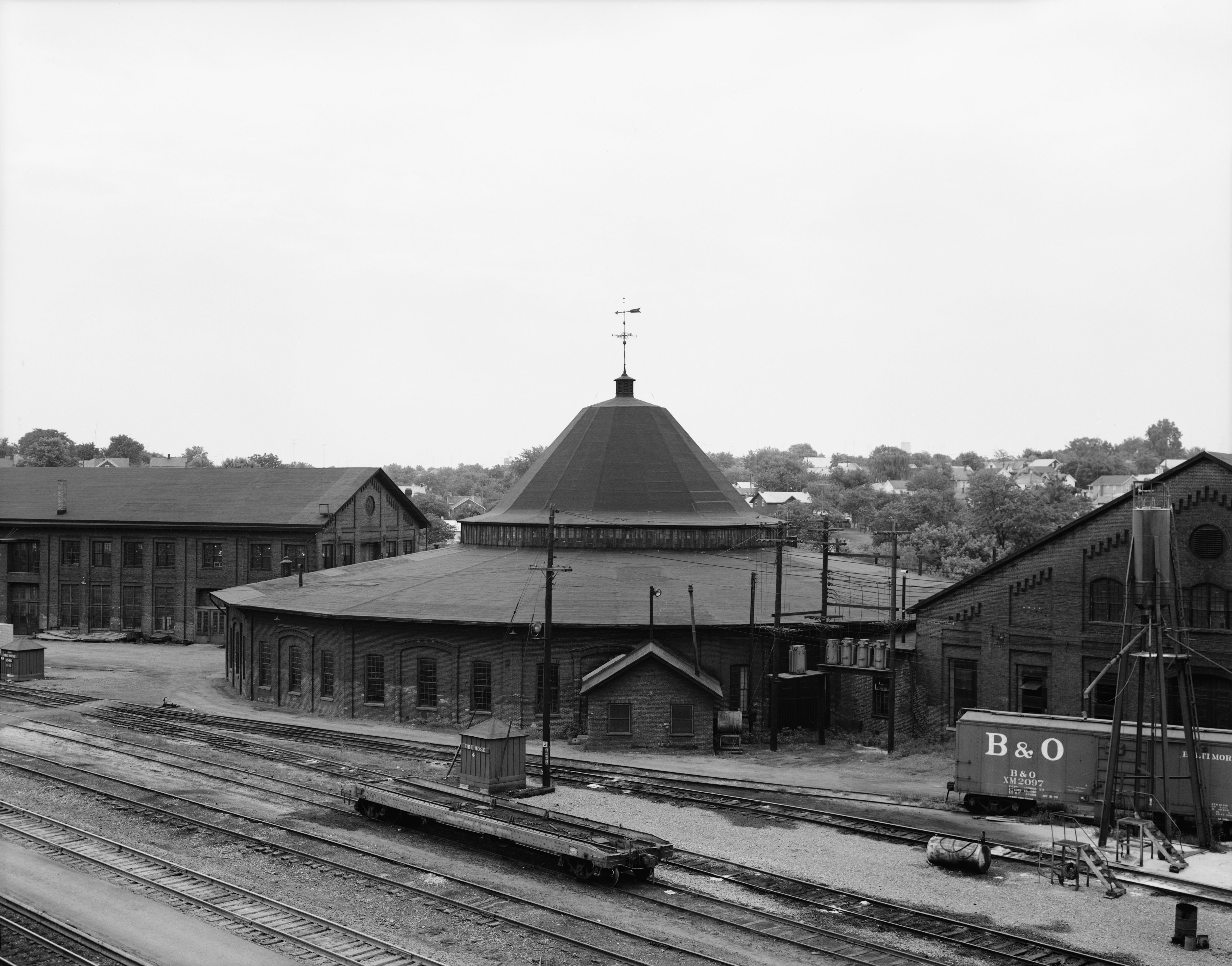 Baltimore & Ohio Railroad, Martinsburg West Roundhouse, East End of Race & Martin Streets, Martinsburg (Berkeley County, West Virginia) (cropped photo).